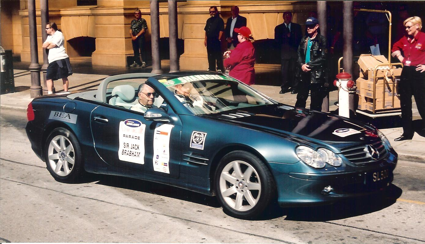 Sir Jack Brabham at the wheel of a Mercedes-Benz SL500 (R230 series) outside the Sir Samuel Way Building in Victoria Square, Adelaide, South Australia, during the Classic Adelaide 2002, of which Sir Jack was patron.Scan of a colour print created from an APS negative.